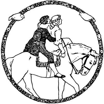 Illustration to Cinderella by Otto Ubbelohde